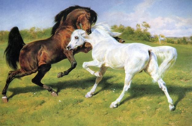 Painting by Rosa Bonheur